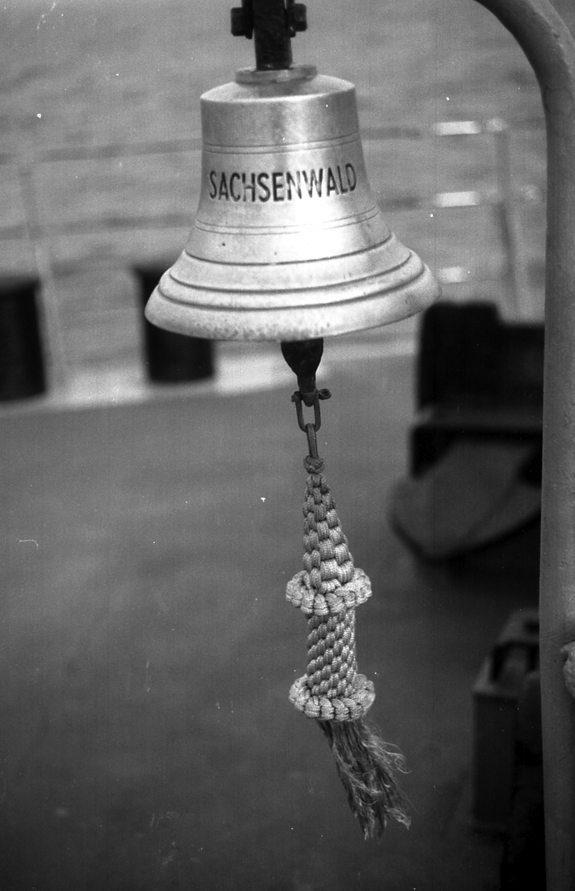 Ship's bell of FGS Sachsenwald (A 1437), October 1984